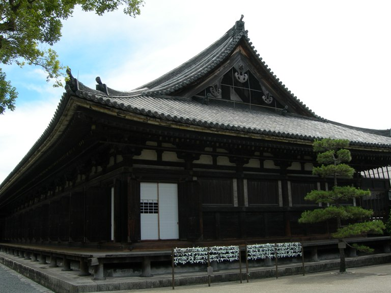 Exterior view of Sanjusangen-dō in Kyoto, Japan.